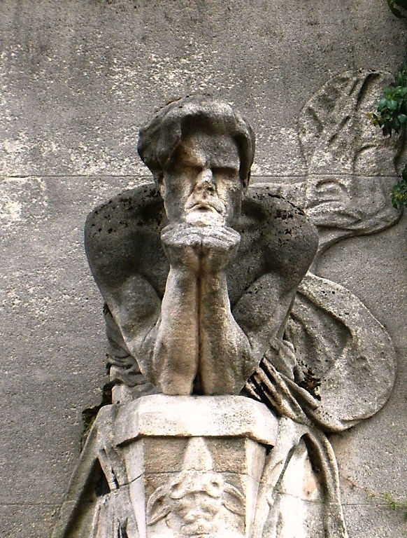 Baudelaire's cenotaph by José de Charmoy, Montparnasse cemetery, division 26-27. (Baudelaire's grave is in the 6th division.)